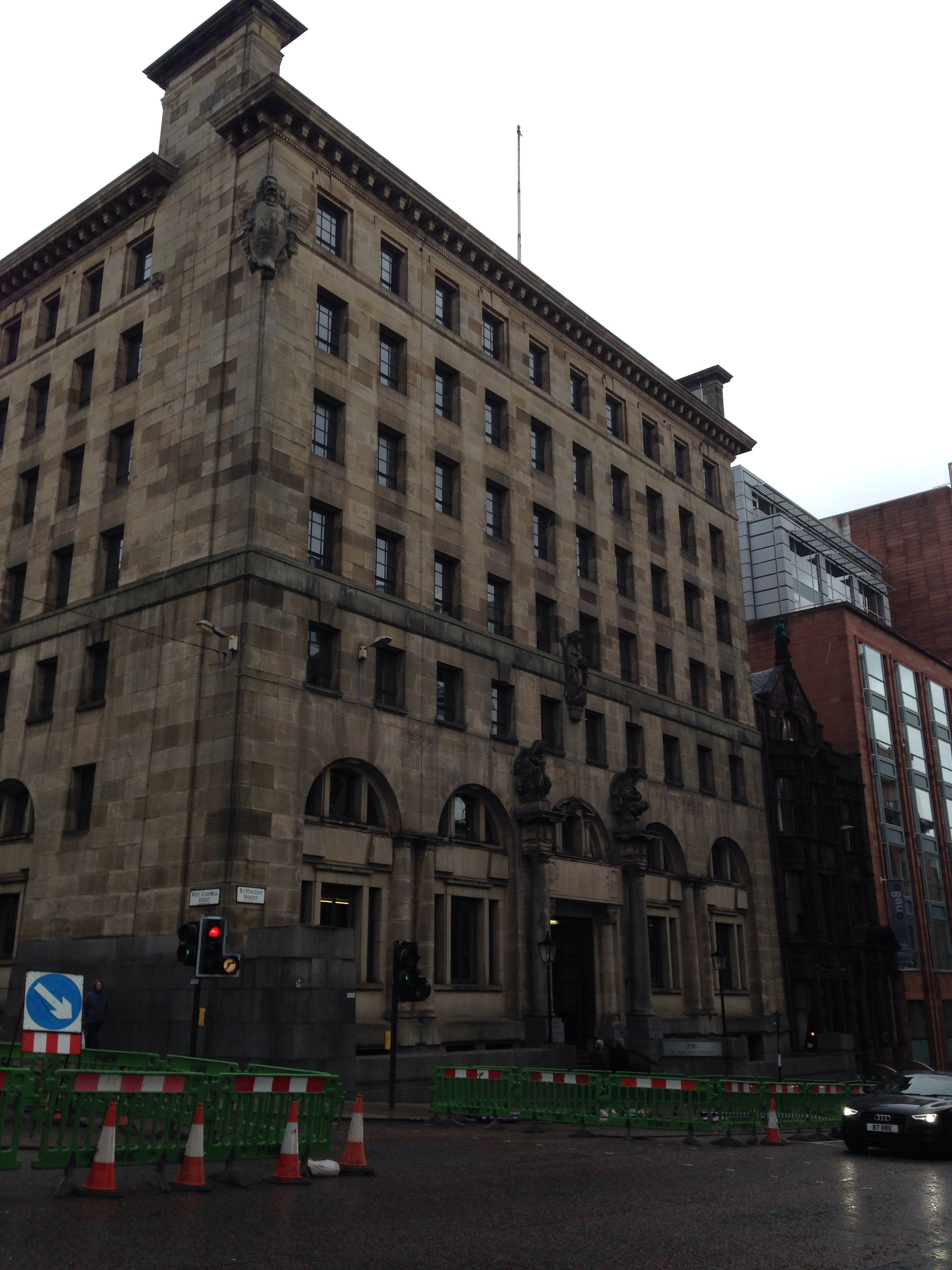 209 St Vincent Street, Category A